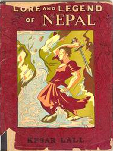 Cover of Lore and Legend of Nepal by Kesar Lall published in 1961.